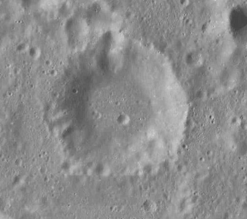 Crater Weinek (detail of LRO - WAC global moon mosaic; Mercator projection)